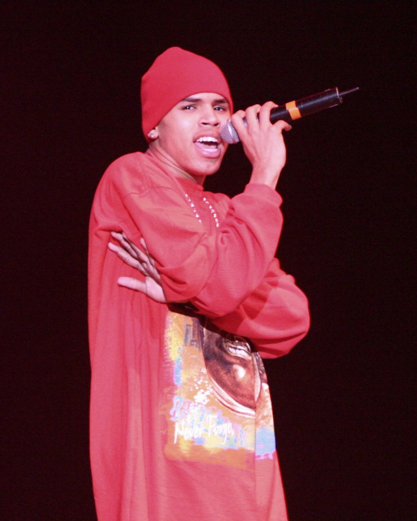 Chris Brown performing at KISS 106.1 Jingle Bell Bash 8